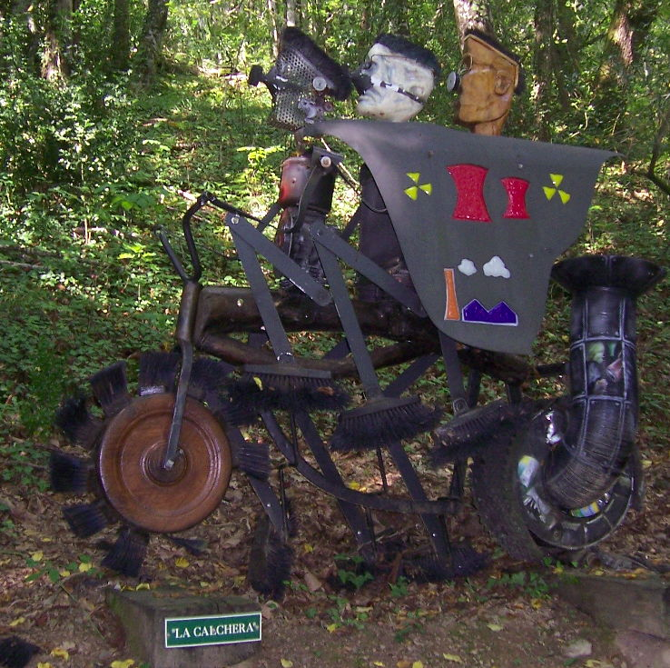 On the path Art-Nature near town Latouille-Lentillac in Lot department, France. This ecological tandem was created by the group of italian artist called "La Calchera". According the note behind, this sculpture shows tree men riding thier sor of bicycle to clean the darker and fergoten corners ot the earth. They are protected by a big shield to resist to the very aggressive environment : polluted air, radioactivity, dust of war... The characters resist and change theirself : the first moults in metal to resist to heat; the second becomes stone ; the last called the observer has choosen the live wood : the last protection of human being. They get their energy of material met on their way.